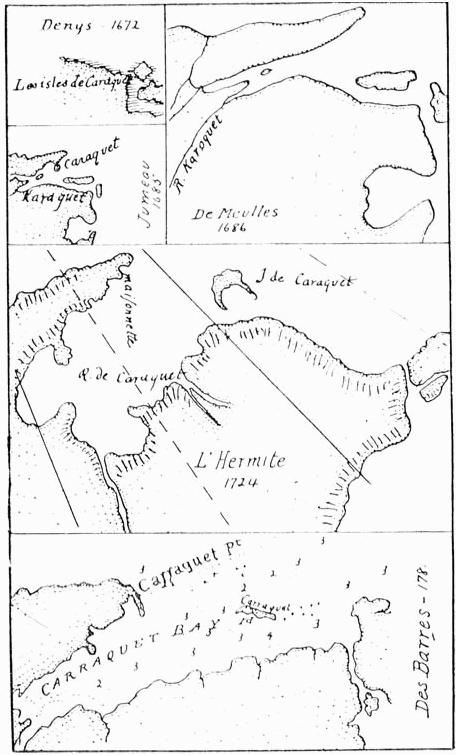 Historical maps of Caraquet, New Brunswick, Canada.